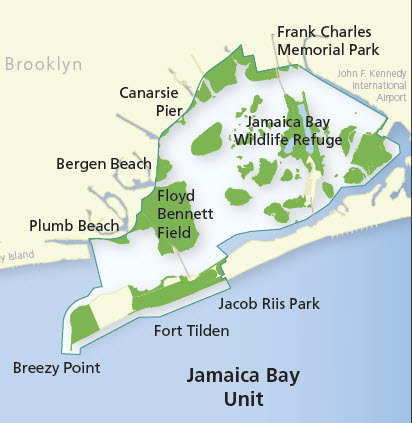 Map produced by the US National Park Service approximately 2010 depicting the major areas with the Jamaica Bay Unit of Gateway National Recreation Area. URL